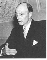 Image from the public domain book The Air Force Role In Developing International Outer Space Law by Delbert R. Terrill Jr.. Caption reads, "Robert A. Lovett, Assistant Secretary of War for Air"